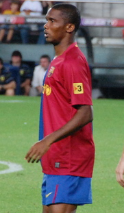 A photo of Samuel Eto'o, during Joan Gamper Trophy 2008, cropped by me